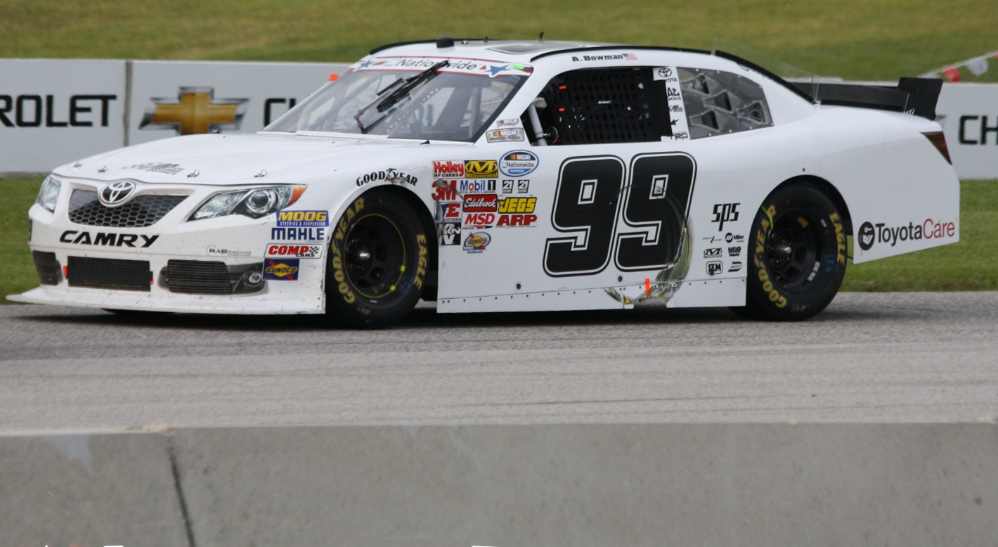 The NASCAR Nationwide car of Alex Bowman during the w:2013 Johnsonville Sausage 200 at Road America.